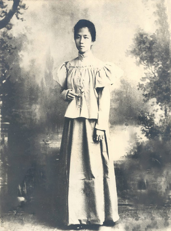 Portrait of Hilaria Aguinaldo, spouse of Emilio Aguinaldo. The original caption is as follows: “ TODAY IN HISTORY (or should we say HERstory): On March 6, 1921, General Emilio Aguinaldo’s first wife, Hilaria del Rosario, the mother of his five children, died. During the term of President Aguinaldo, Hilaria organized the Hijas de la Revolucion (Daughters of the Revolution), which later became the Asociacion Nacional de la Cruz Roja (National Association of the Red Cross). This organization raised funds for medicine and other supplies, and helped attend to the sick soldiers during the revolution. At that time, the term First Lady was not used which makes her the unofficial First Lady of the Philippines. (Photo courtesy of the National Library of the Philippines) ”